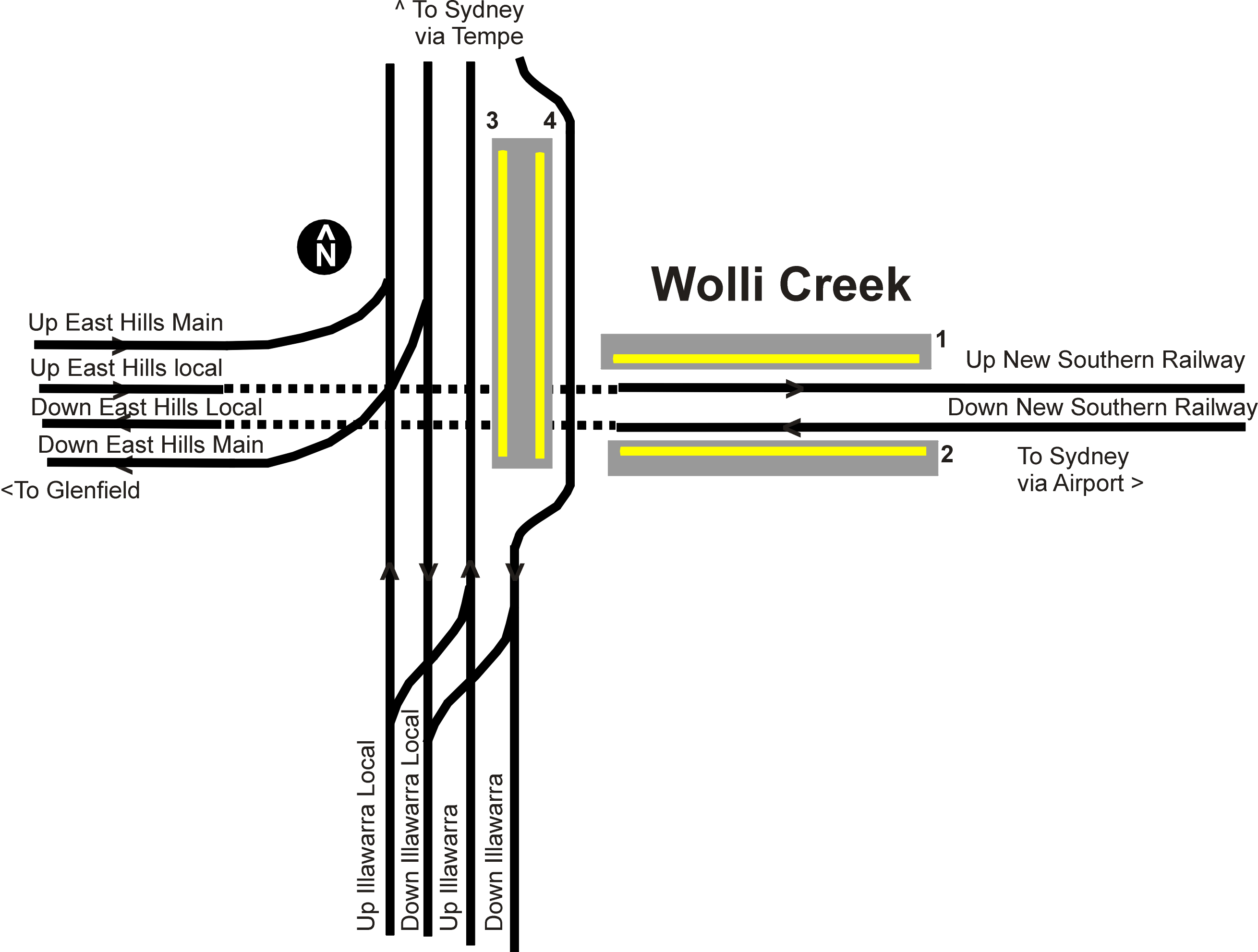 Track arrangement at Wolli Creek railway station